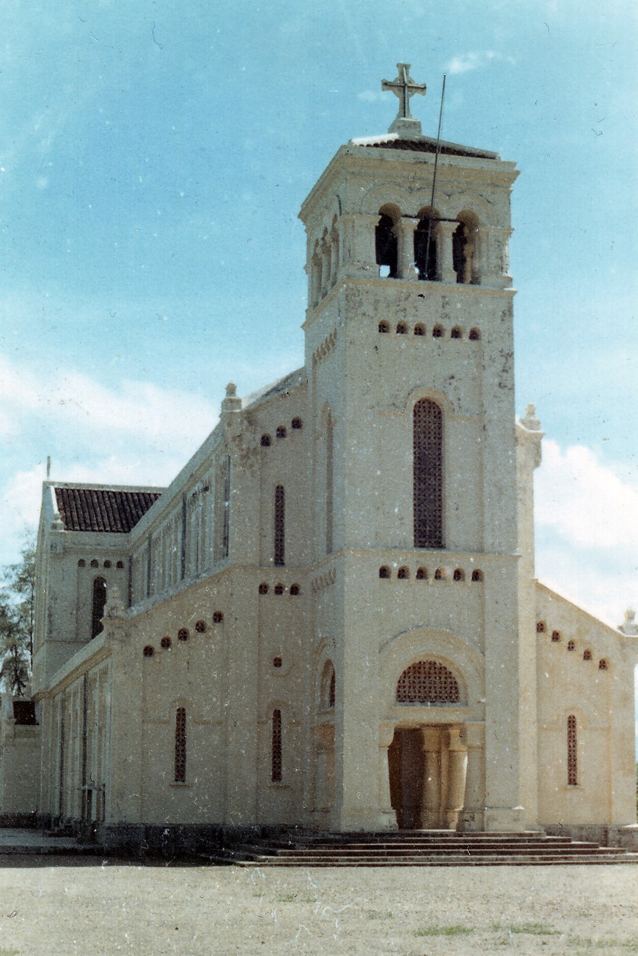 Our Lady of La Vang Church, September, 1967.